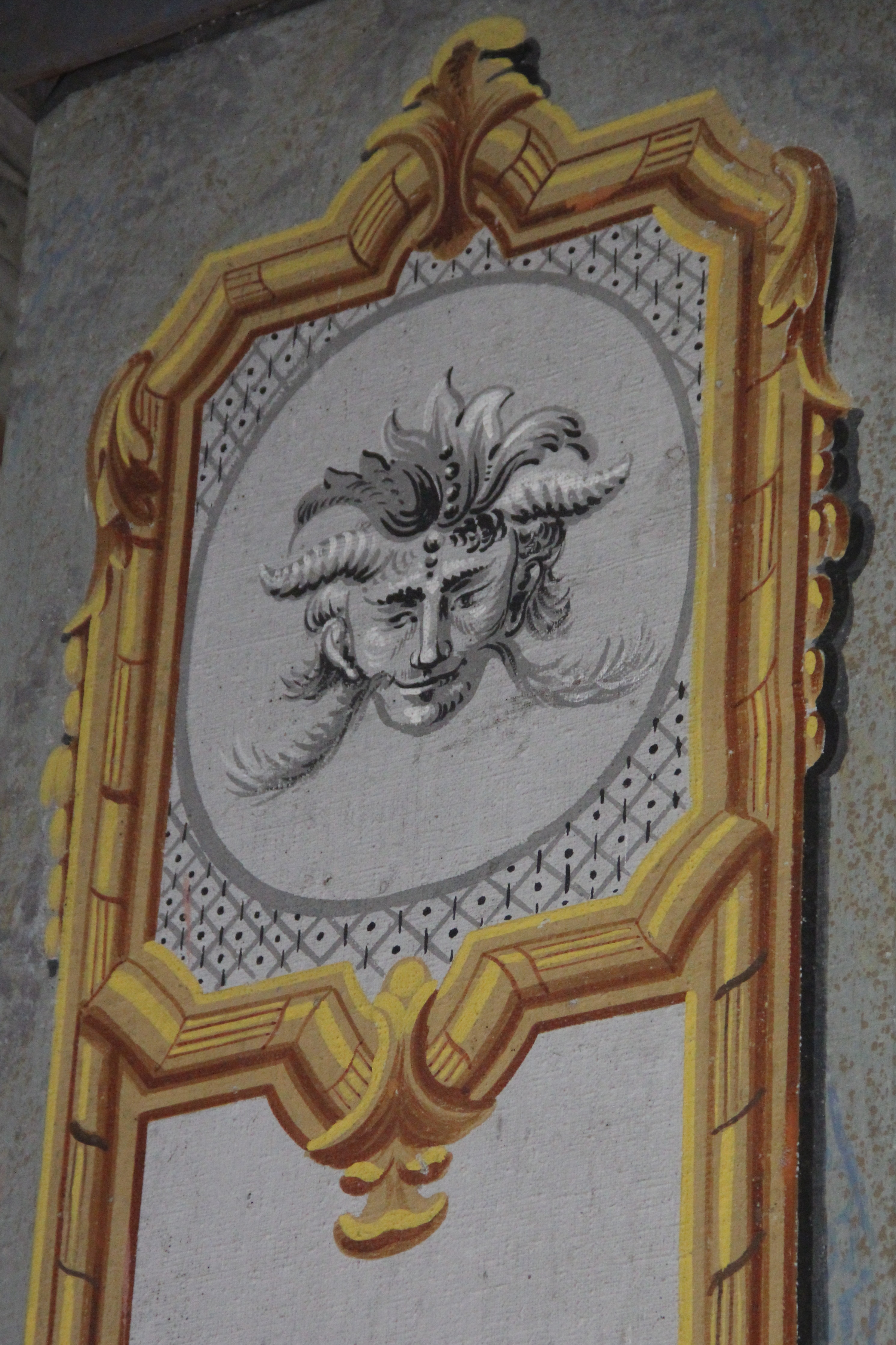 Louhisaari manor, Askainen, Masku, Finland. - Piru chamber. Satyr head, painted on 1700s linen wall covering. It's origin to the room name.